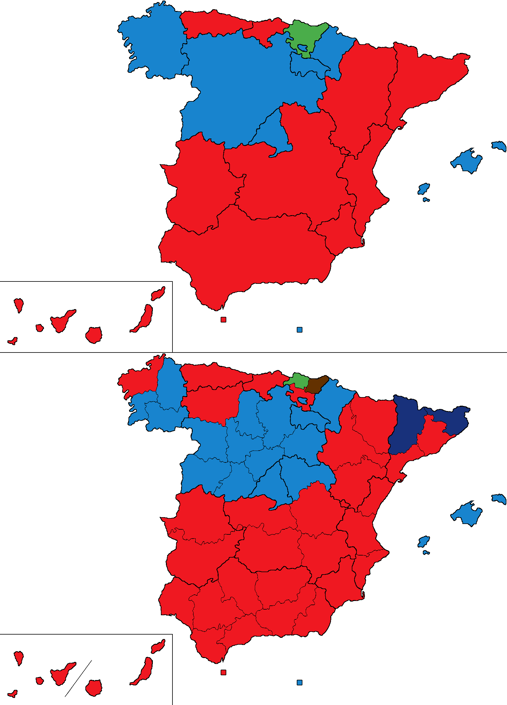 Most voted party in the 1989 Spanish Congress of Deputies election by autonomous communities and provinces.